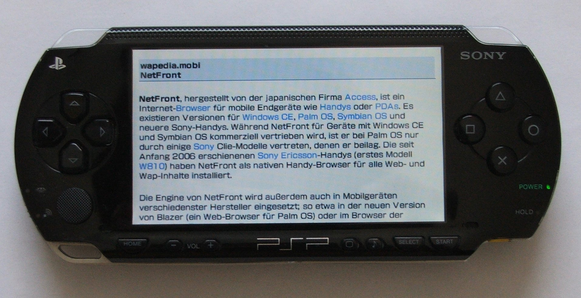 The PSP Web Browser on a PSP-1000, showing an article via Wapedia.mobi